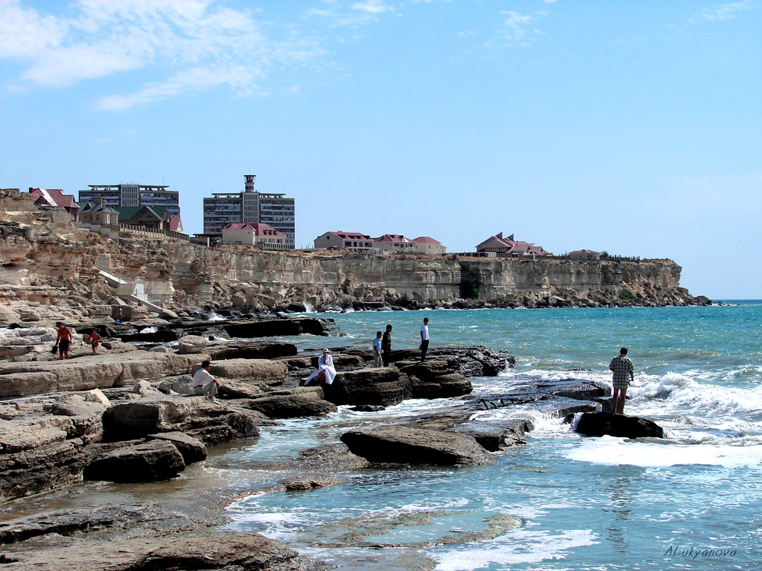 Aktau: View on Microdistrict 4 and the light house from the sea side.